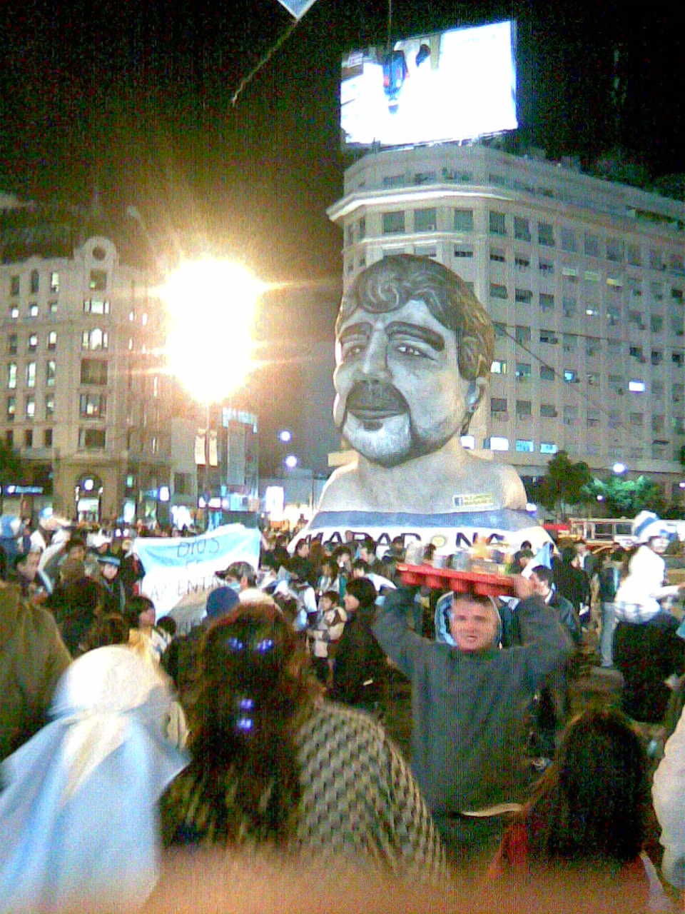 People celebrating in 9 de Julio Avenue in Buenos Aires after Argentina's victory against Greece in the World Cup South Africa 2010